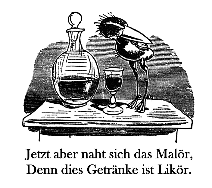 Picture from “Hans Huckebein, der Unglücksrabe” by Wilhelm Busch